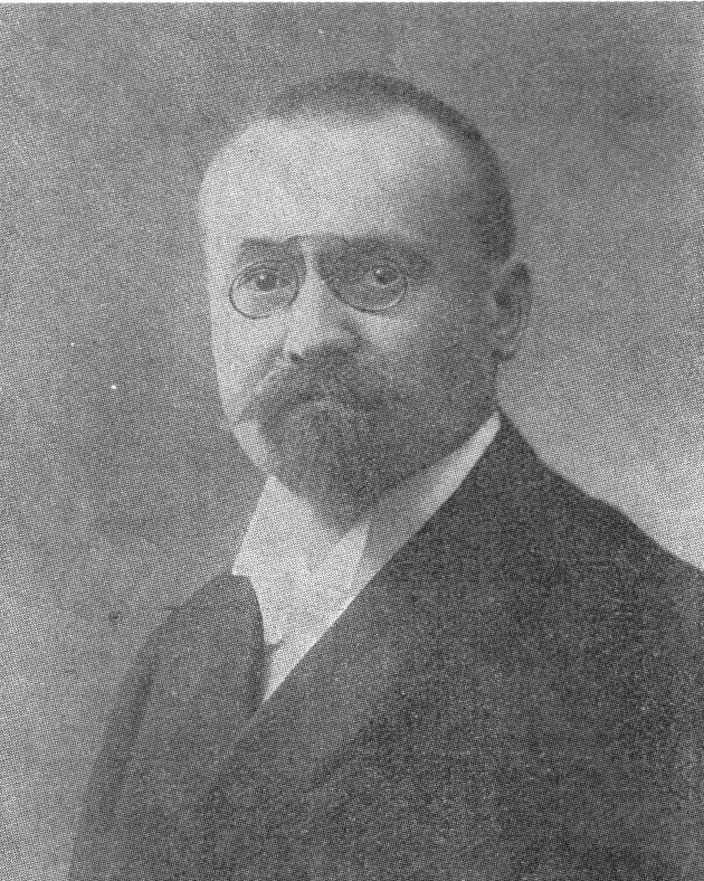 Julius Keck, Lord Mayor of Tuttlingen and Göppingen, Member of the State Diet of Württemberg